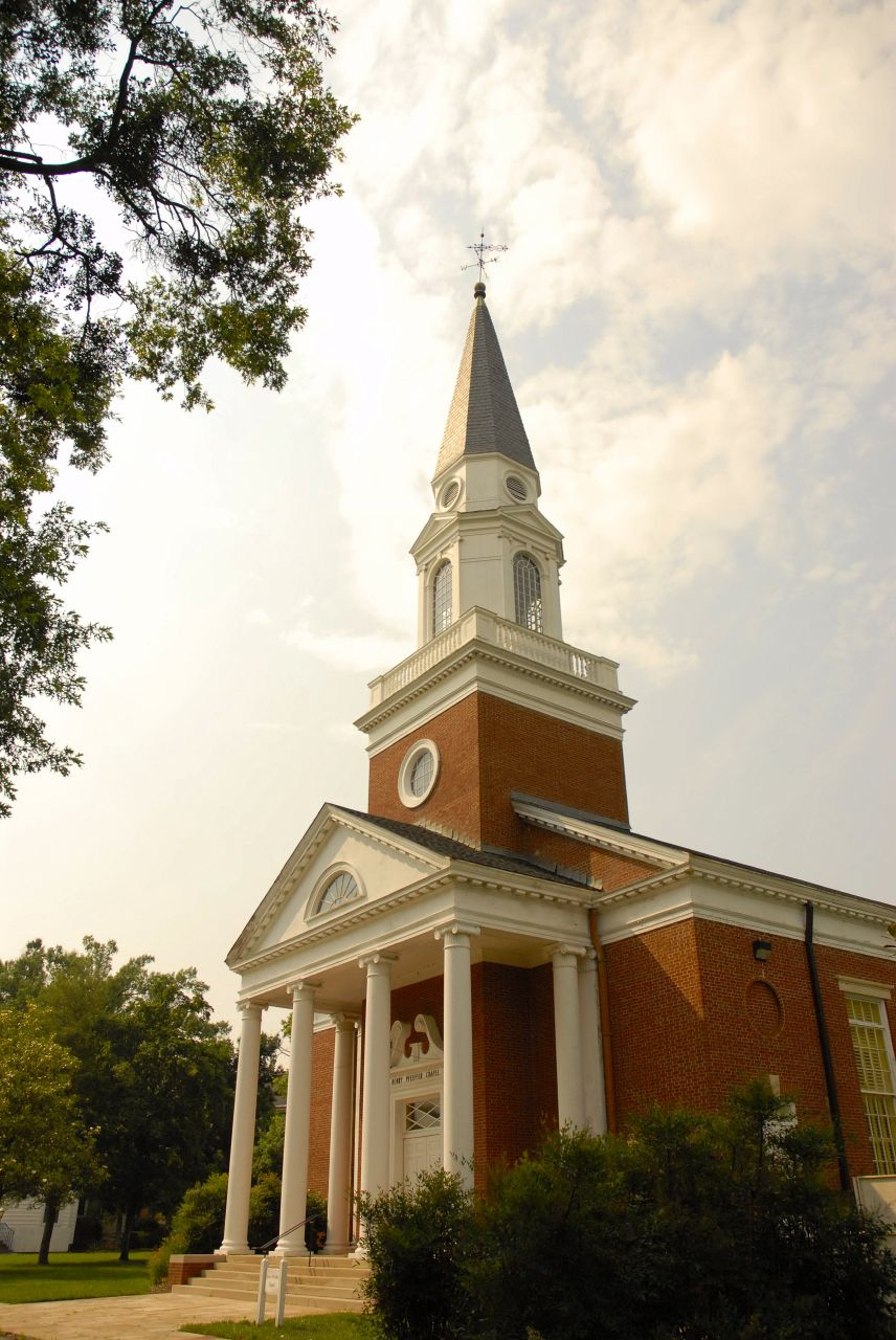 Henry Pfeiffer Chapel